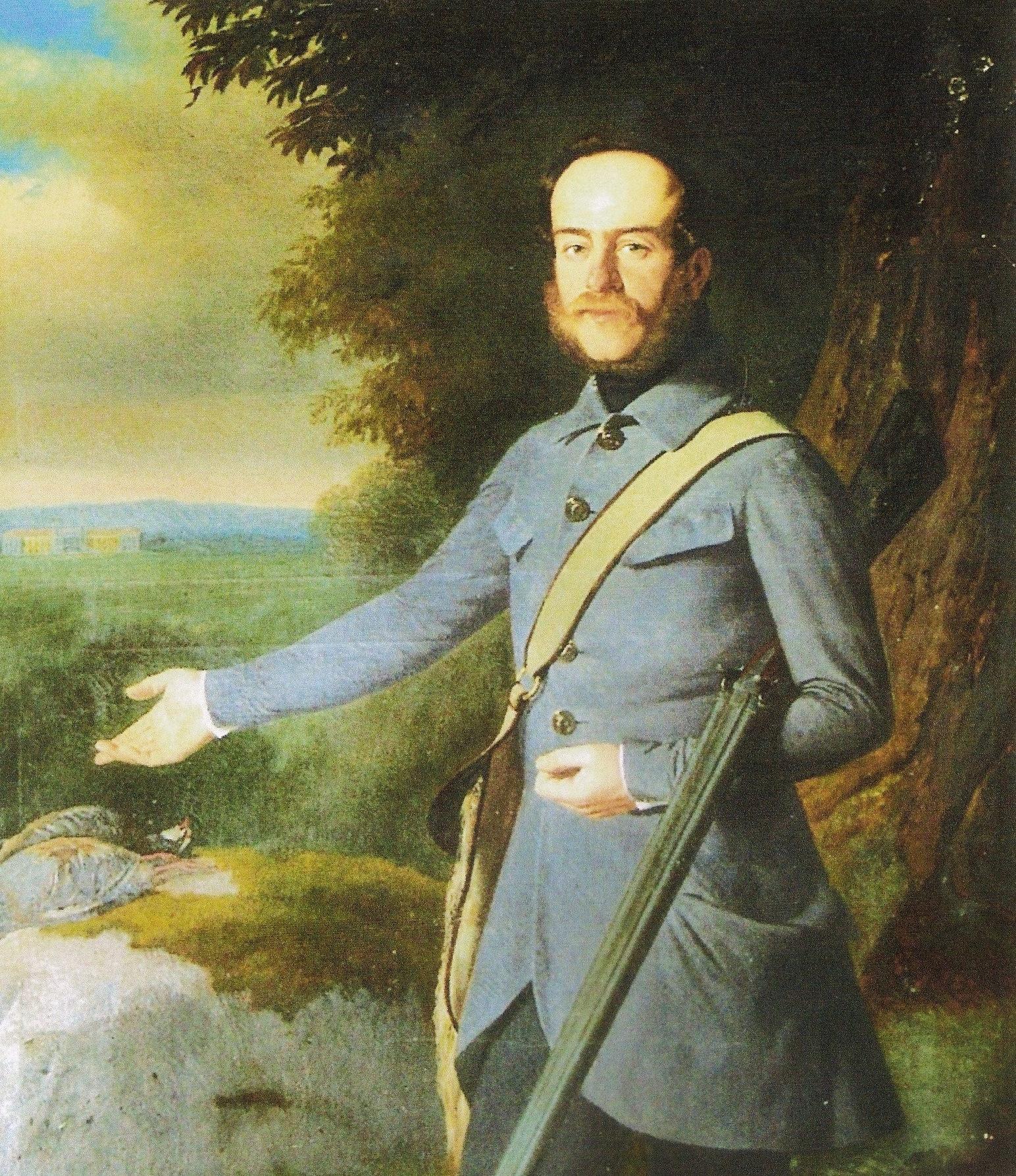 The Count of Farrobo dressed for a hunt, by Thomas Lawrence. Quintela private collection.